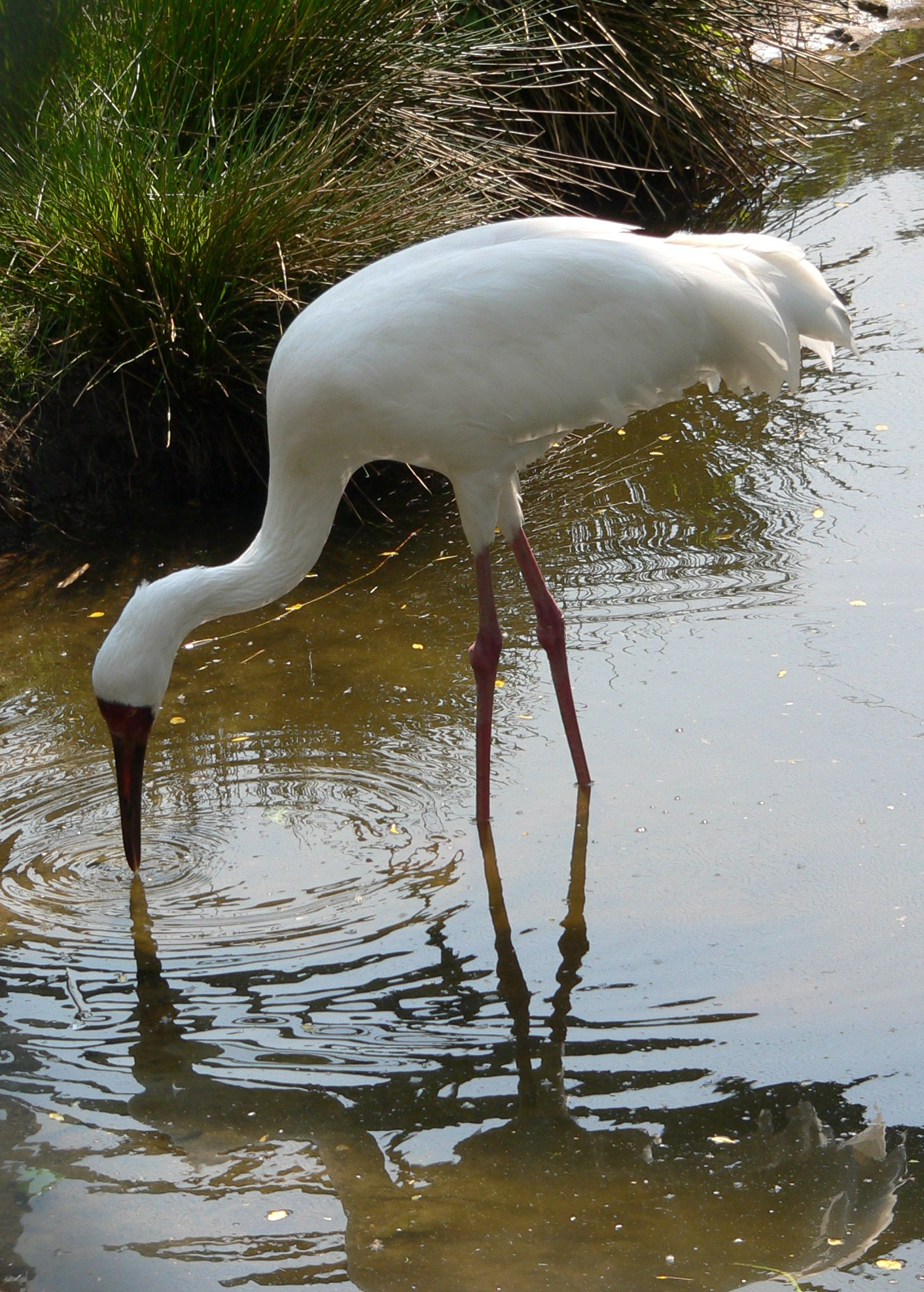 Grus leucogeranus